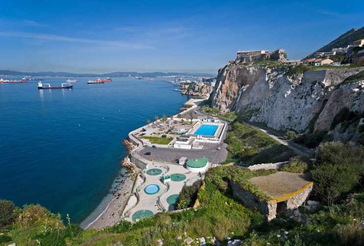 Gibraltar's Rosia and Camp Bay viewed northwards with old Buena Vista barracks overlooking the bay.